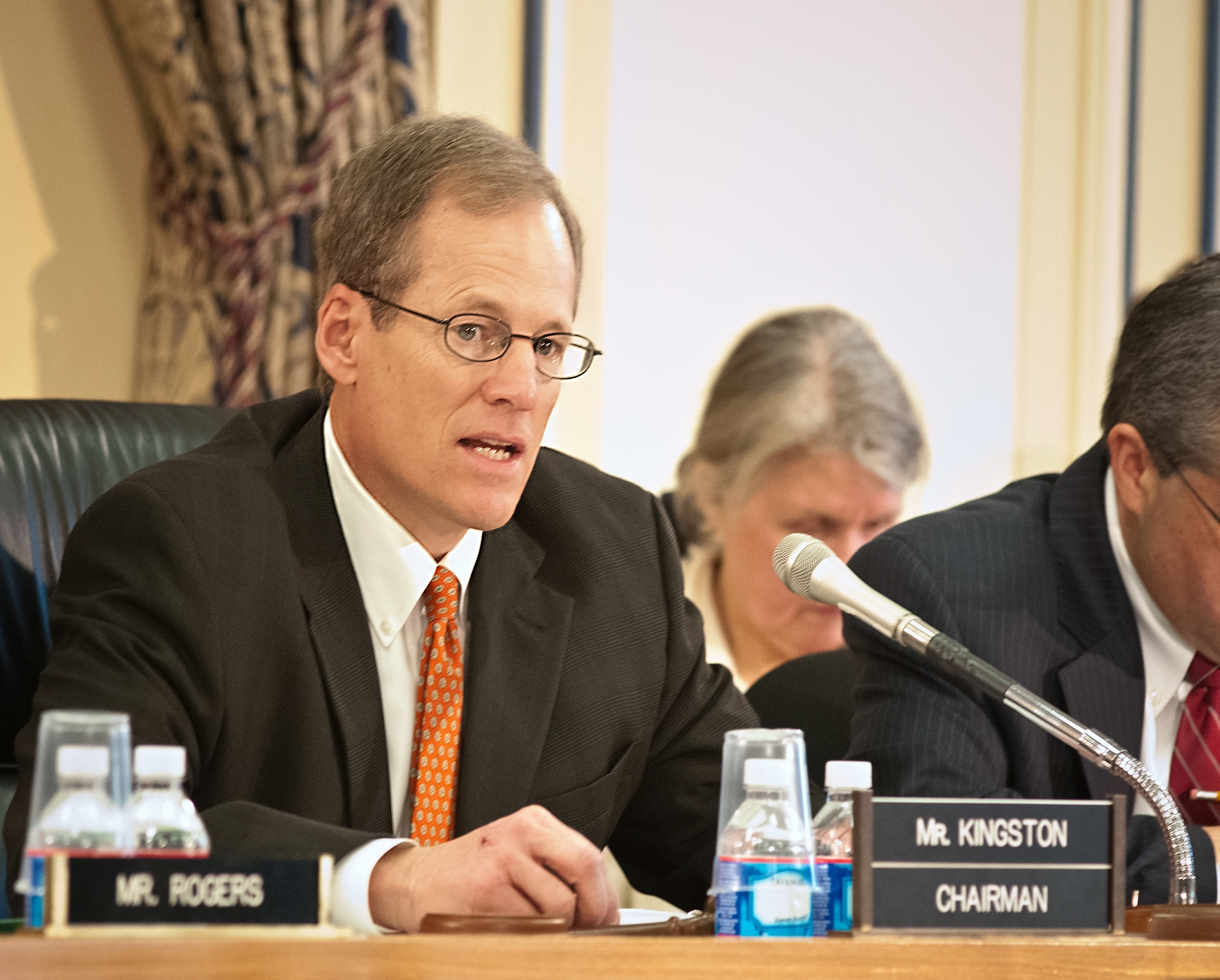 prior to discussing the United States Department of Agriculture budget in the Rayburn House Office Building